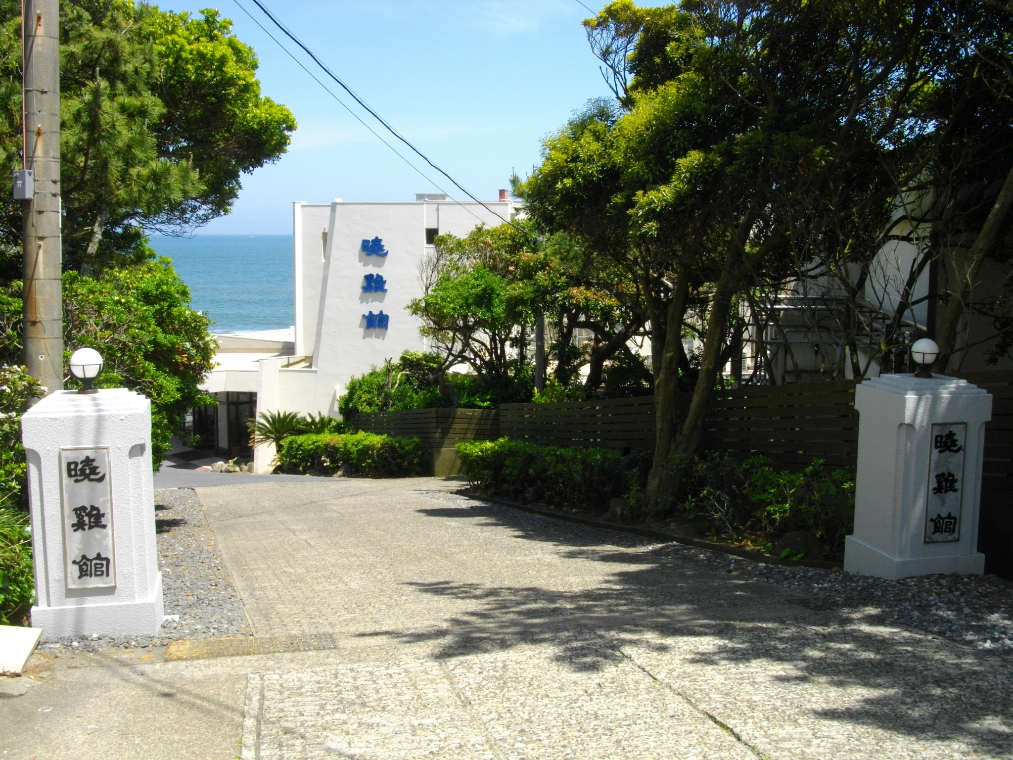 Gyokeikan